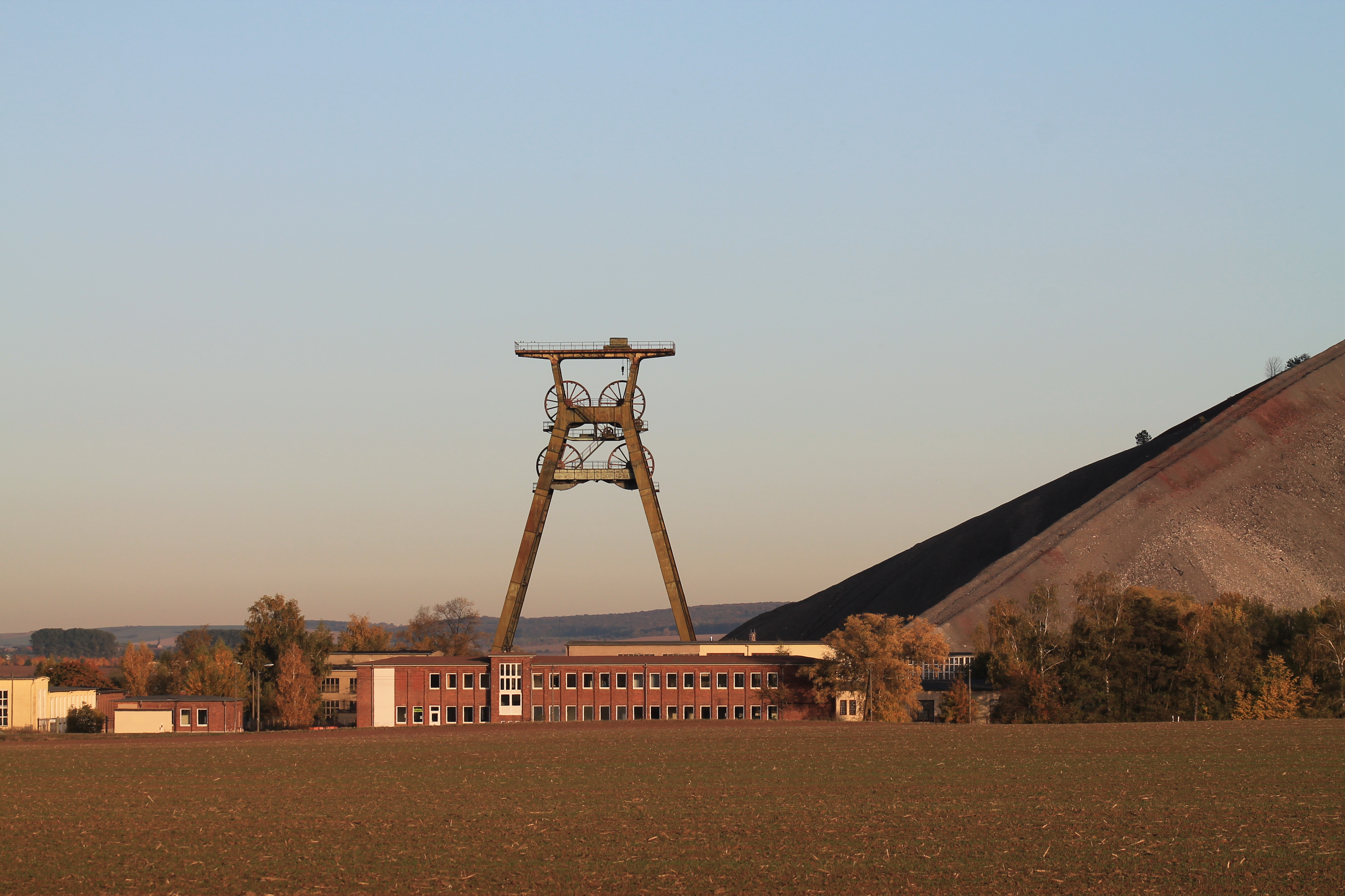 Headframe of Bernard Koenen shaft no. 2, near Nienstedt, municipality of Allstedt, Saxony-Anhalt, Germany.